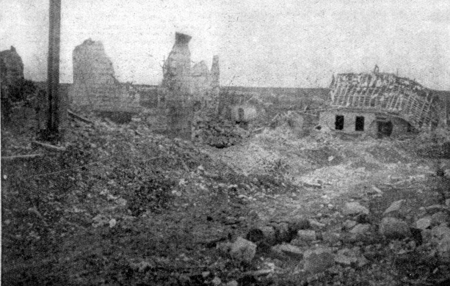 The French town of Carency, following the Second Battle of Artois, May 1915. Original caption All that remains of another corner of Carency after the great battle that raged in the streets. The Germans had concealed machine-guns in almost every house, and the French could only silence these by completely devastating the buildings by artillery fire. Then, house by house, the indomitable French soldiers advanced.